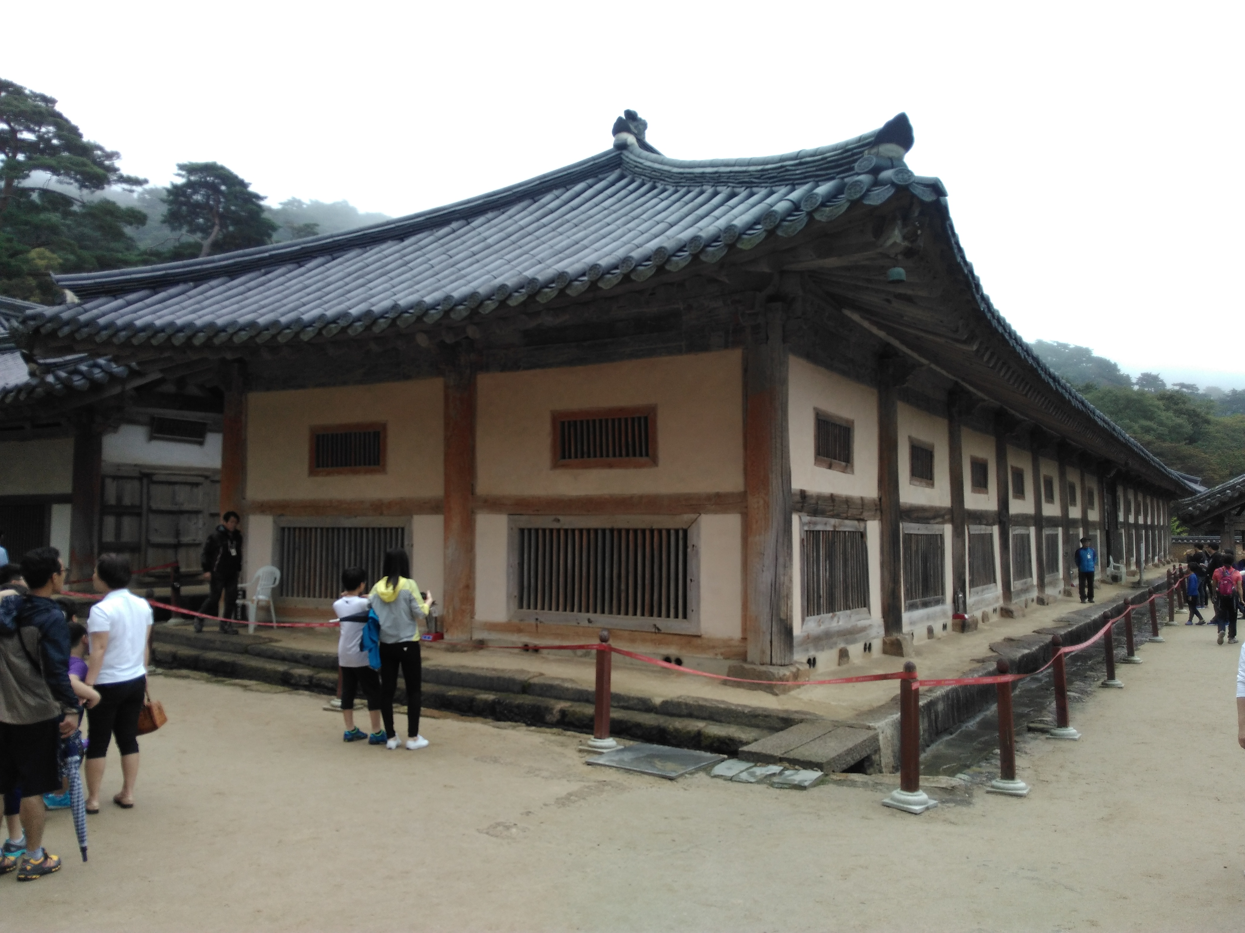 View of the hall where the Tripitaka is stored.